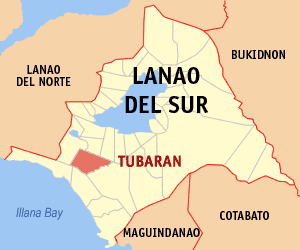 Map of the Lanao del Sur showing the location of Tubaran